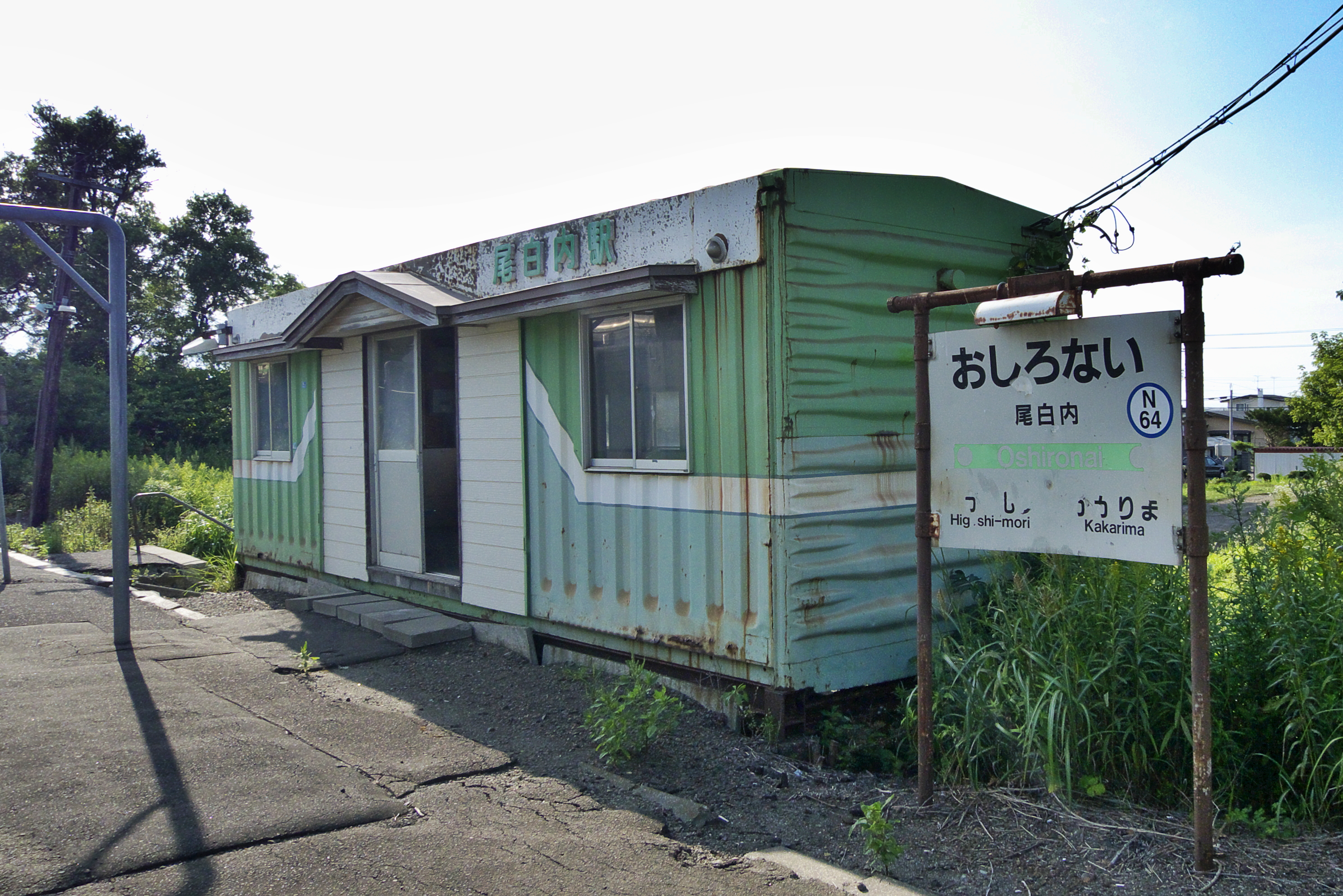 Oshironai Station on the JR Hokkaido Hakodate Main Line